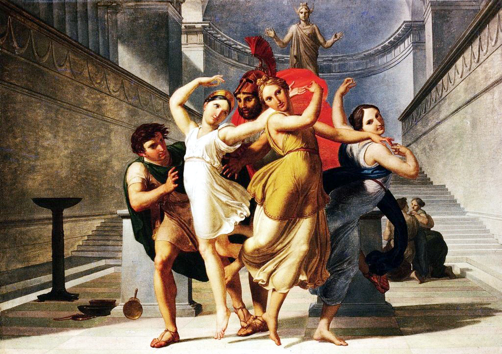 Theseus and Pirithous abducting Elena, 1814. Oil on canvas. Pelagio Palagi (1775-1860)